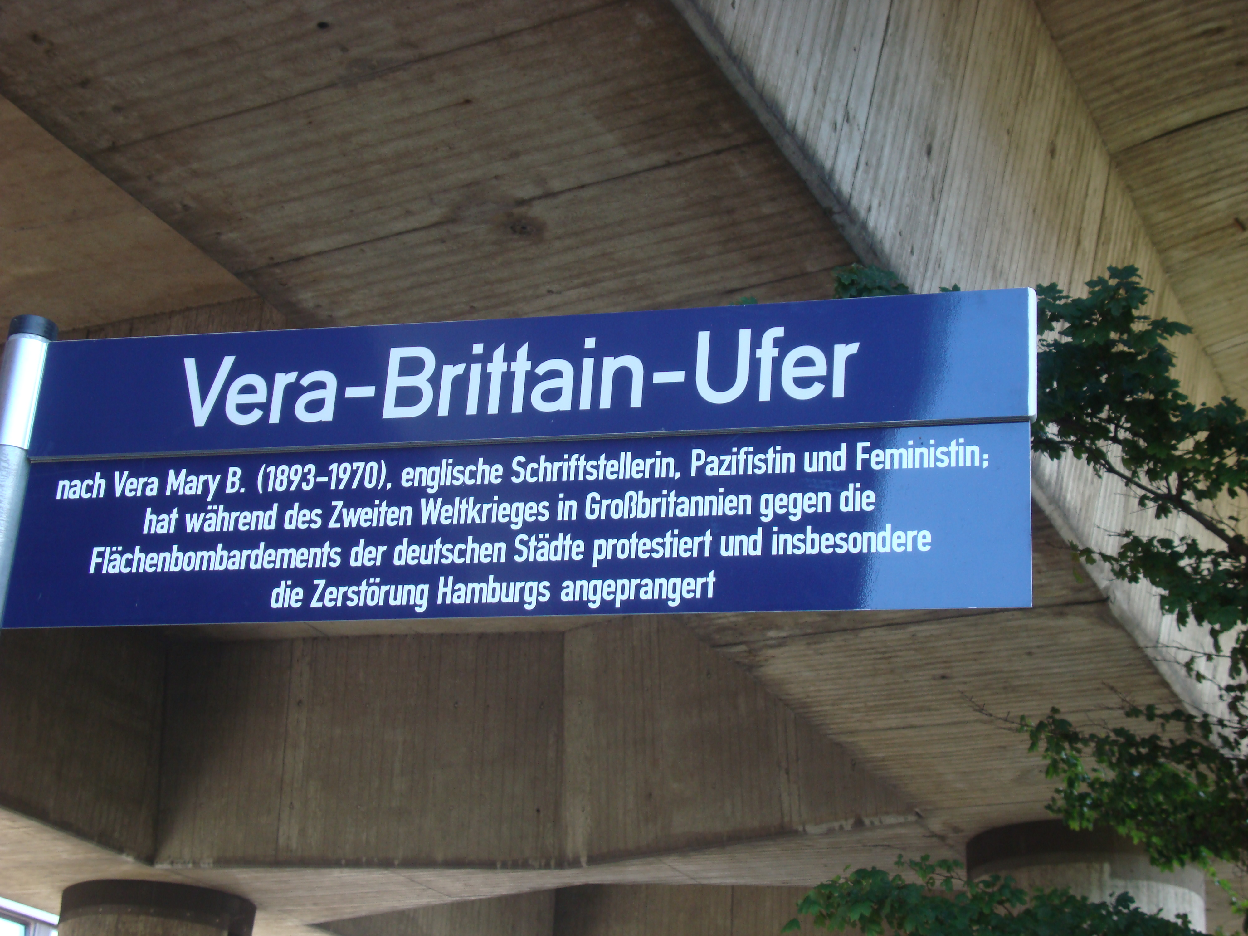 Remember Vera Brittain in Hamburg-Hammerbrook